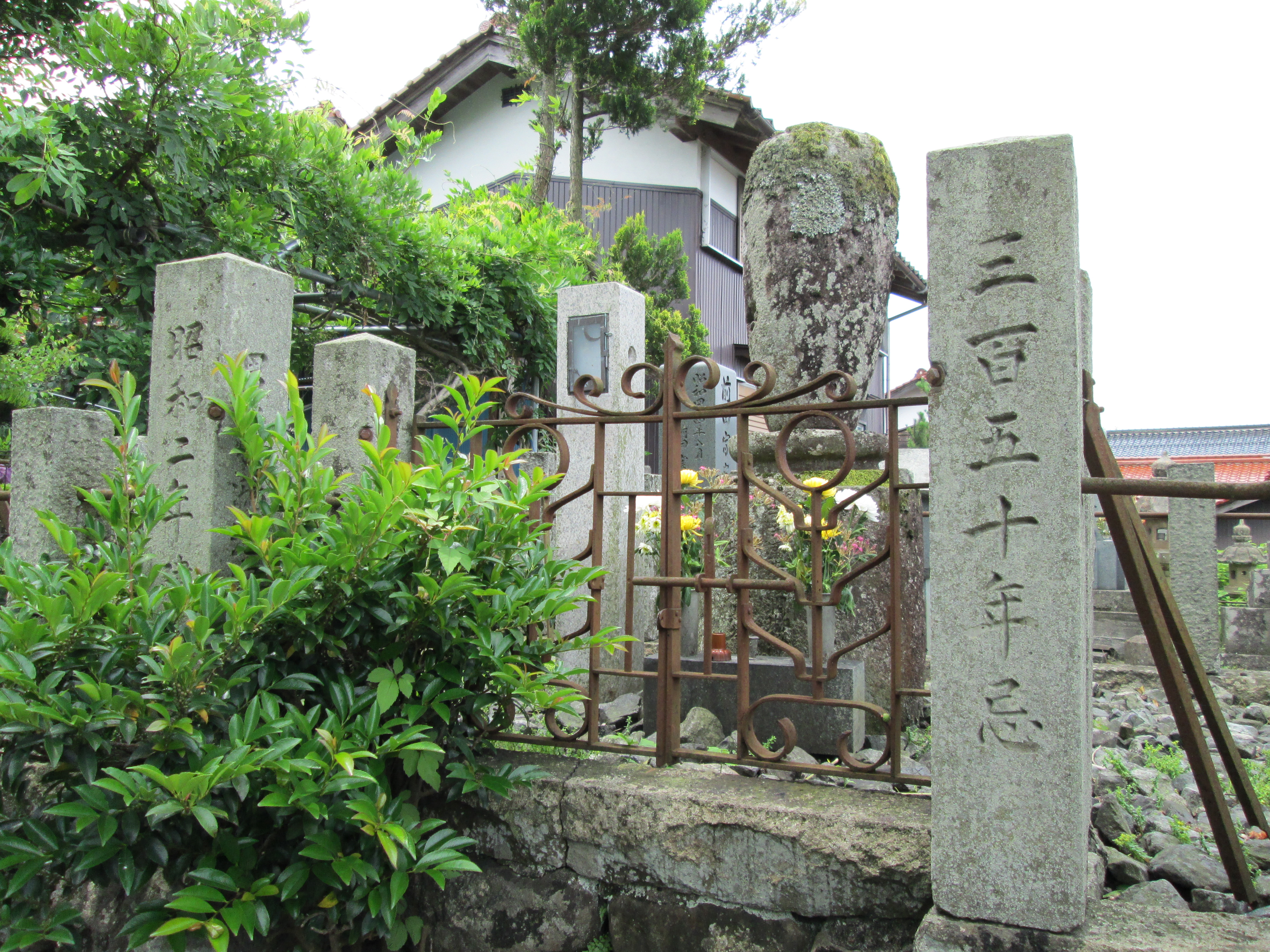 tomb1 of Yamanaka Yukimori in Shikanocho, Tottori, Japan